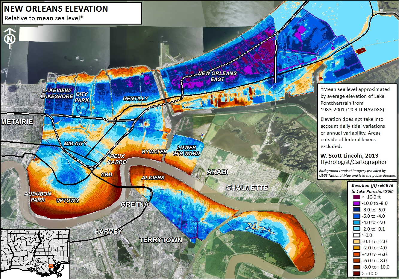 Map shows the elevation of New Orleans proper, relative to Lake Pontchartrain average elevation, in feet.